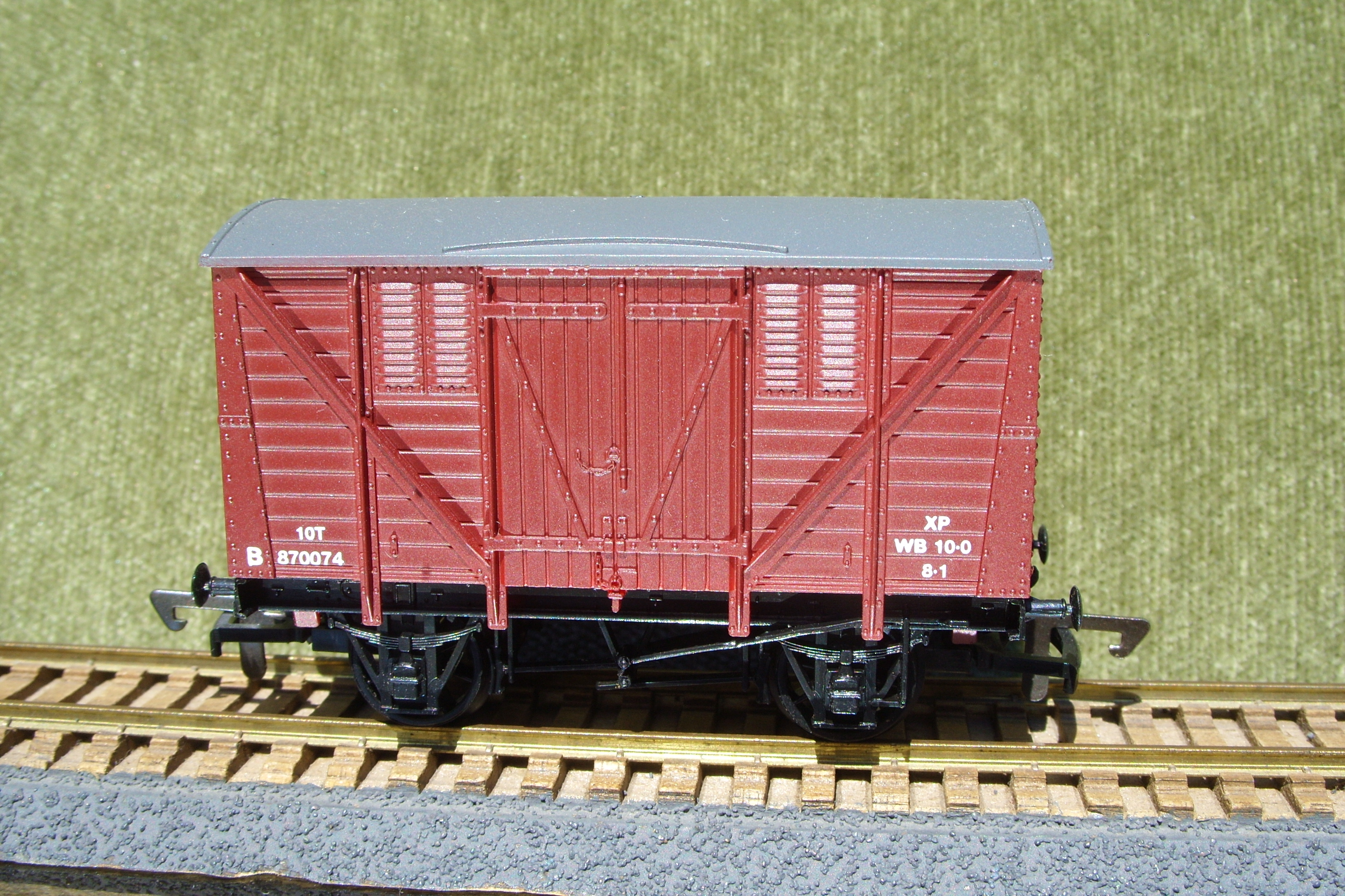 Dapol B26 OO scale wagon 10 ton BR meat wagon as made c1988